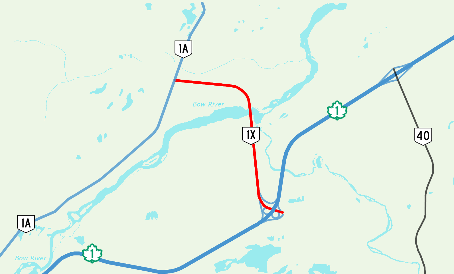 Alberta Highway 1X - created with OpenStreetMap